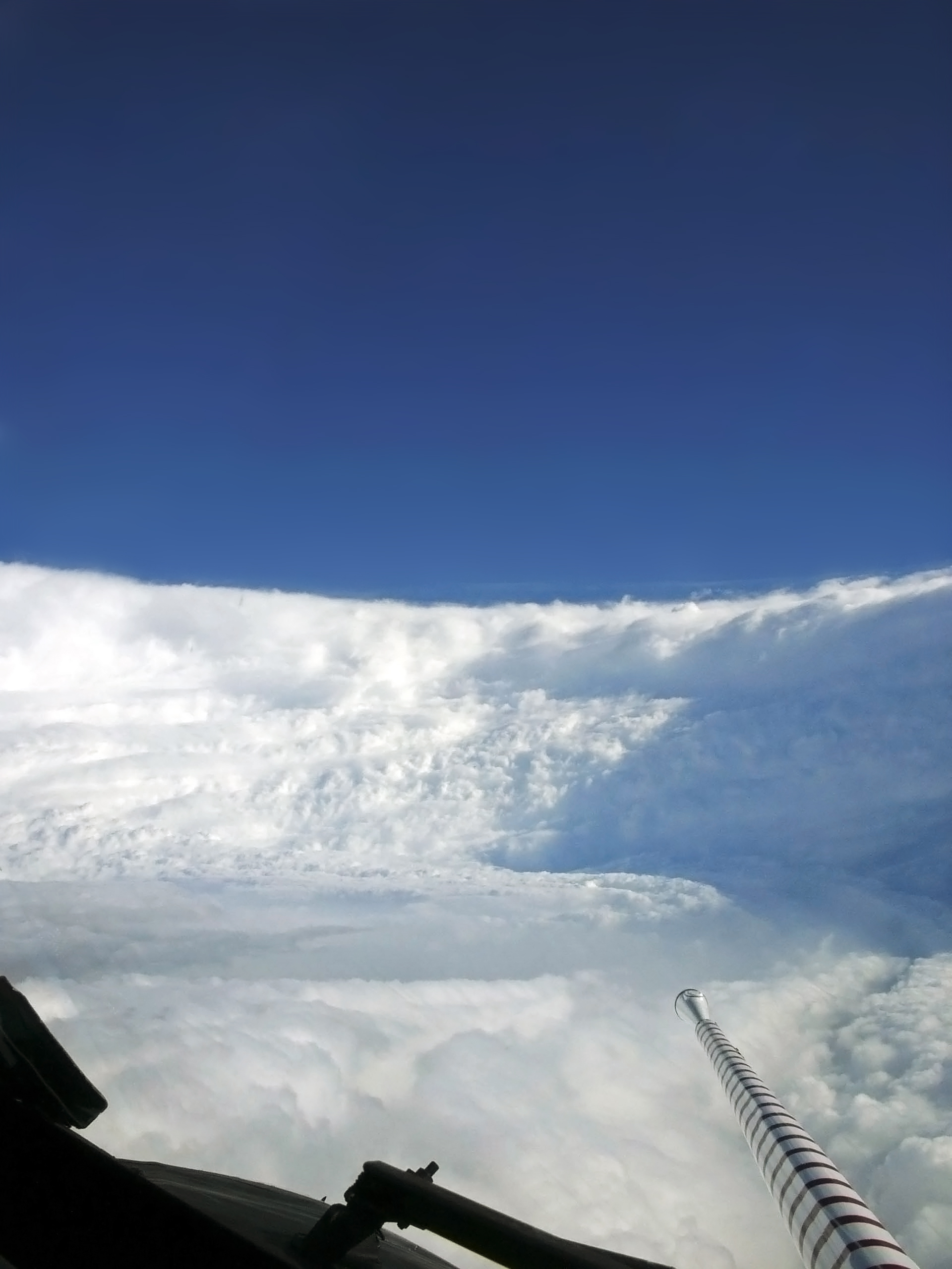 View of the eyewall of Hurricane Katrina taken on August 28, 2005, as seen from NOAA WP-3D Orion hurricane hunter aircraft before the storm made landfall on the United States Gulf Coast.